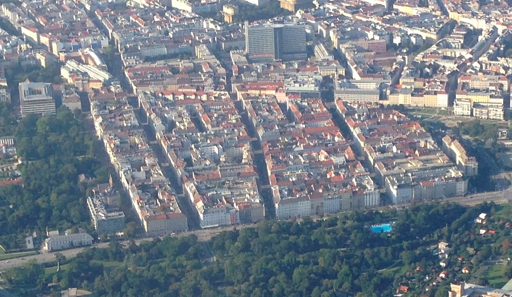 Landing in Vienna on August 2, 2014. Window seat on the pilot’s side. Approach takes you over the city of Vienna and, it was a beautiful day.